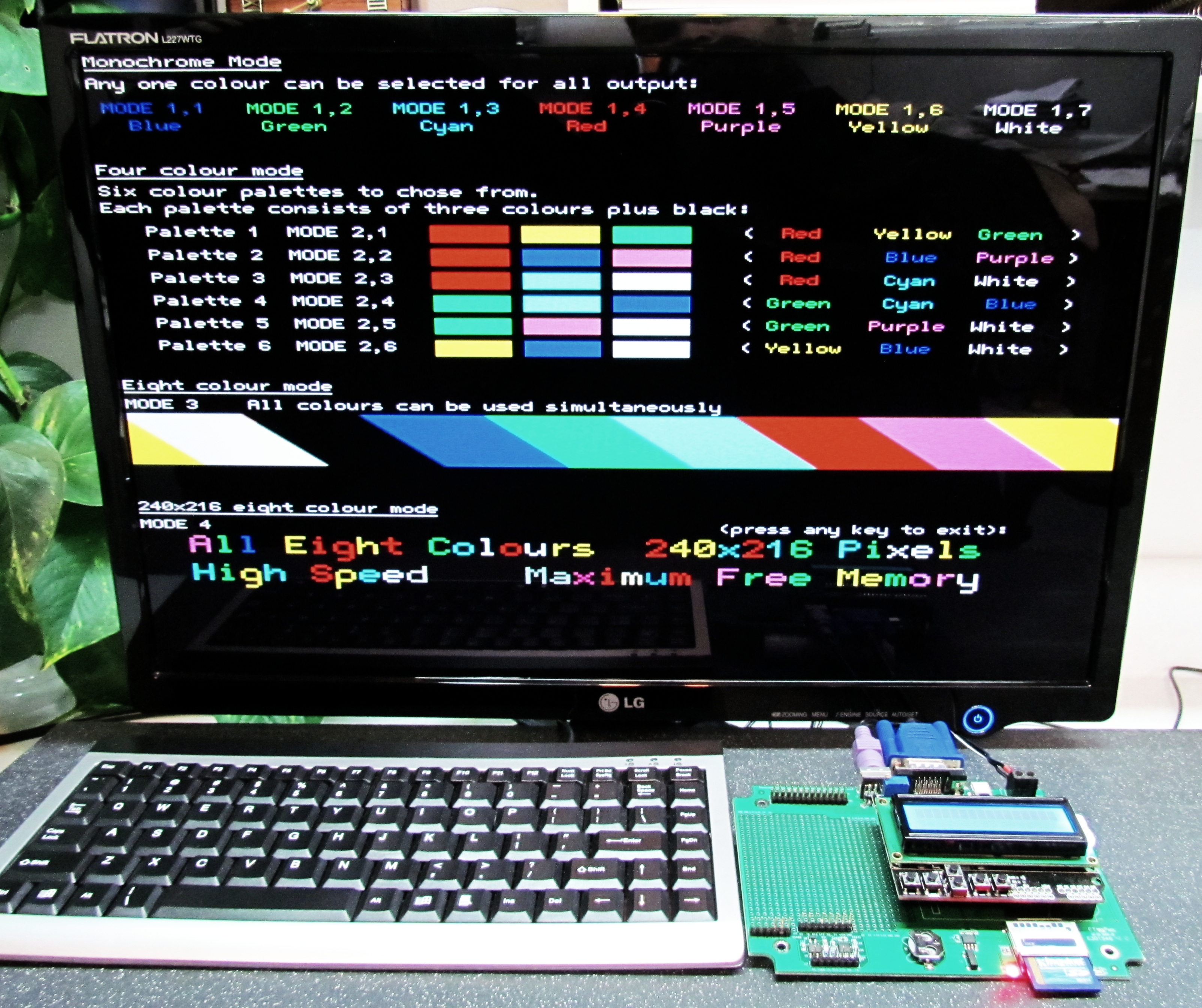 This is a color Maximite displaying all of the colors and graphics modes via VGA. The CircuitGizmos CGCOLORMAX1 board is shown with an LCD daughter board, SD card, and connection for the PS/2 keyboard.